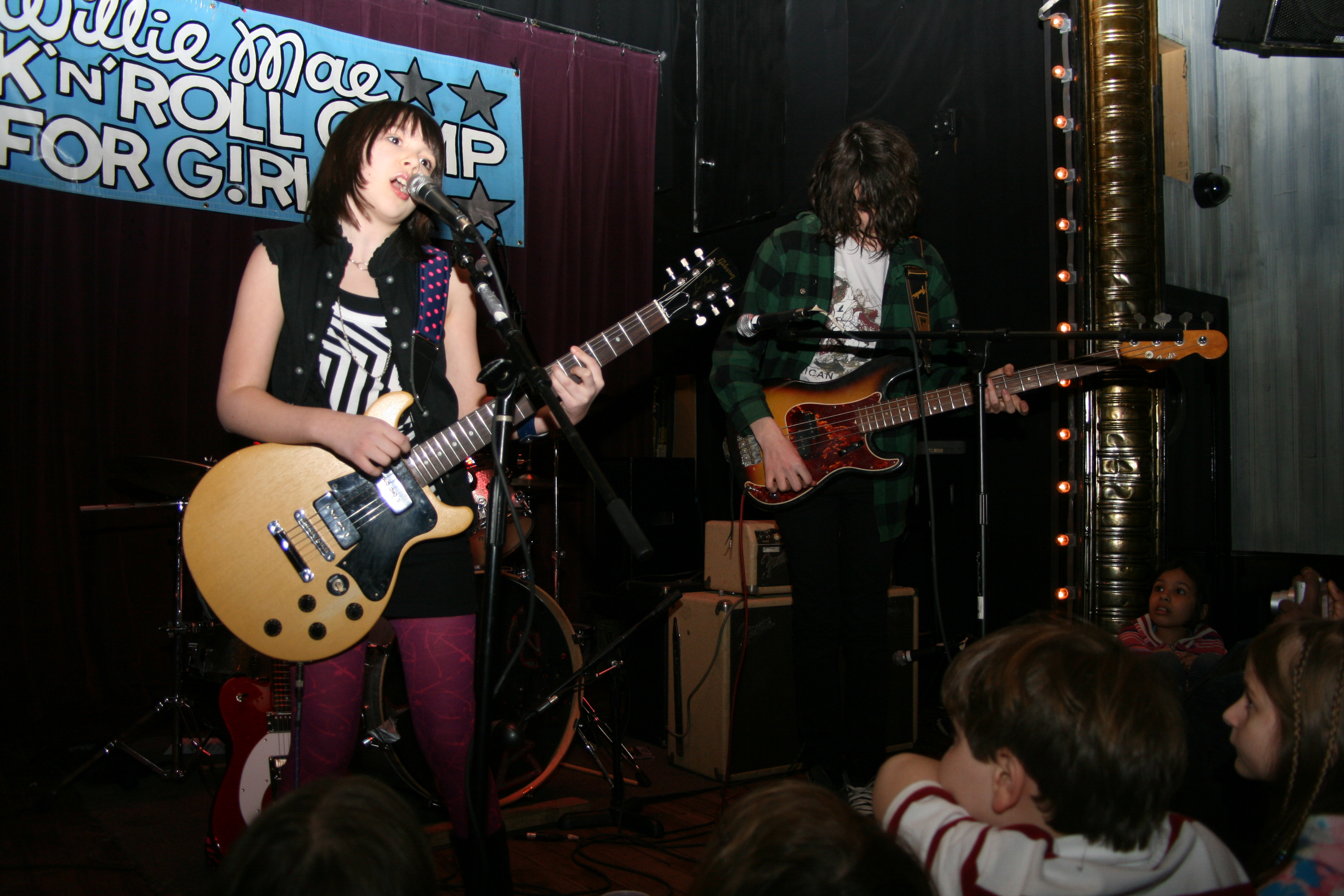 See this blog post. Mini version of the annual Rock 'n Roll camp for girls held in Brooklyn by the Willie Mae Rock Camp for Girls, a nonprofit organization. Photo by Emily Przybylinski.